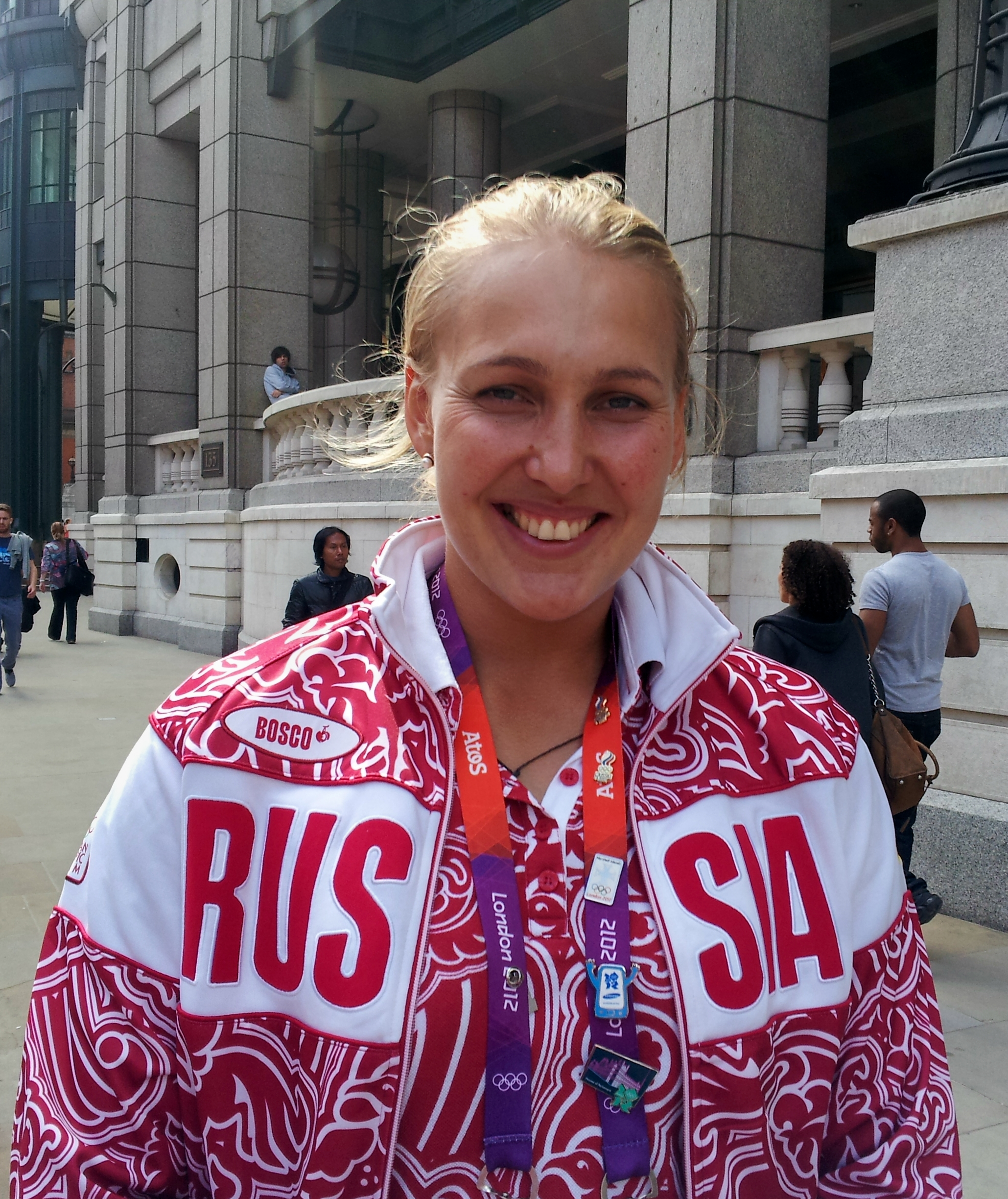 Russian hammer thrower Mariya Bespalova, taken at The London 2012 Summer Olympic Games